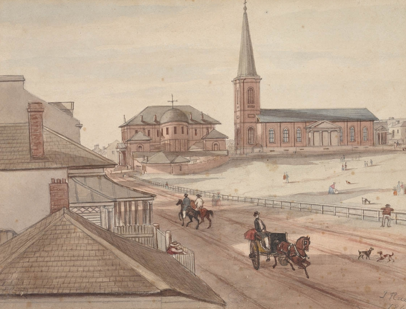 Watercolour of Sydney looking north along Elizabeth Street towards the Supreme Court and St James' Church. Hyde park appears on the right. From the collection of the Dixson Galleries, State Library of N.S.W. Call number: DG V* / Sp Coll / Rae / 1 Drawings : 1 watercolour ; 25.2 x 33.6 cm. inside mount